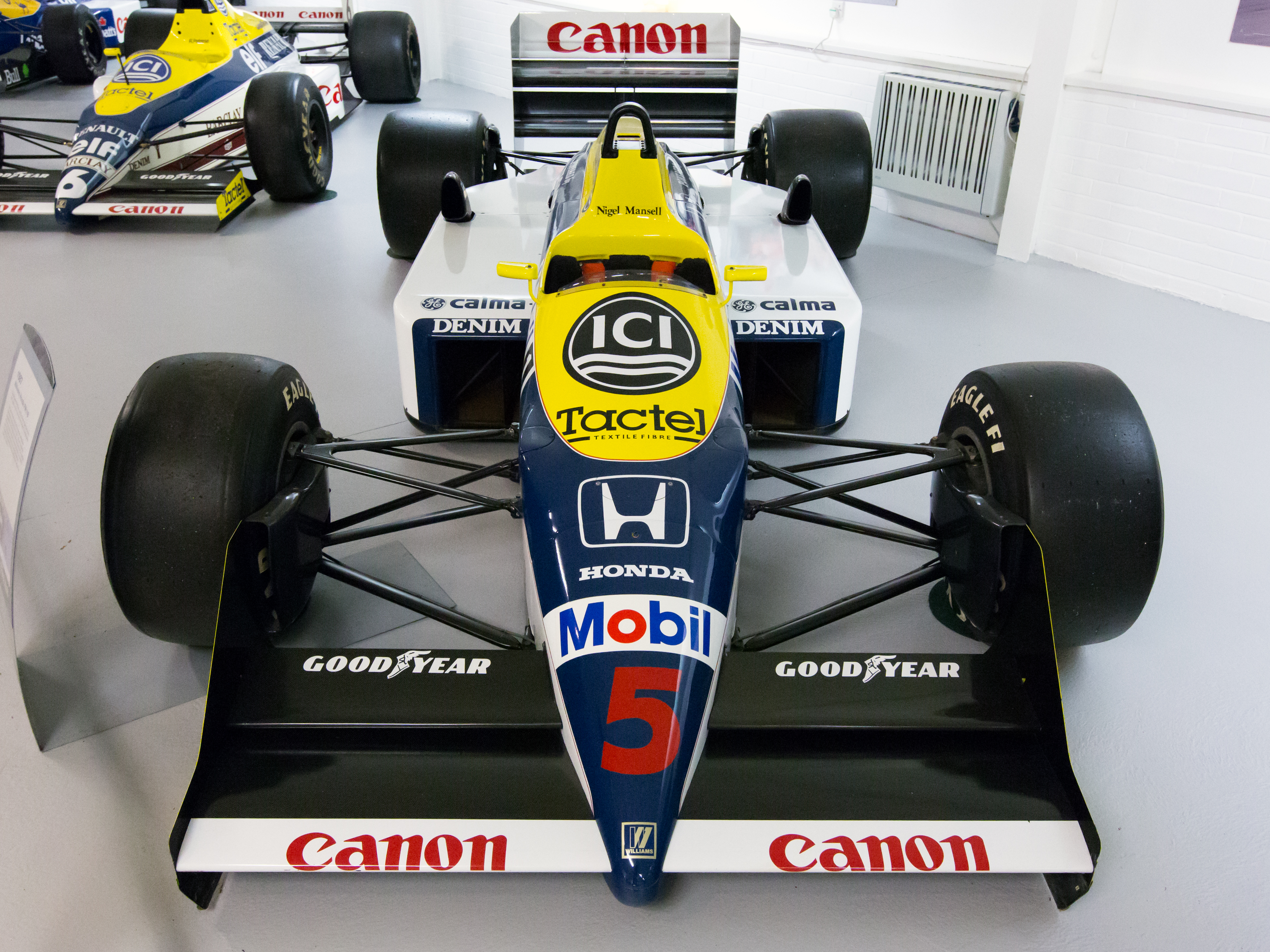 1987 Williams FW11B (#5 Nigel Mansell)